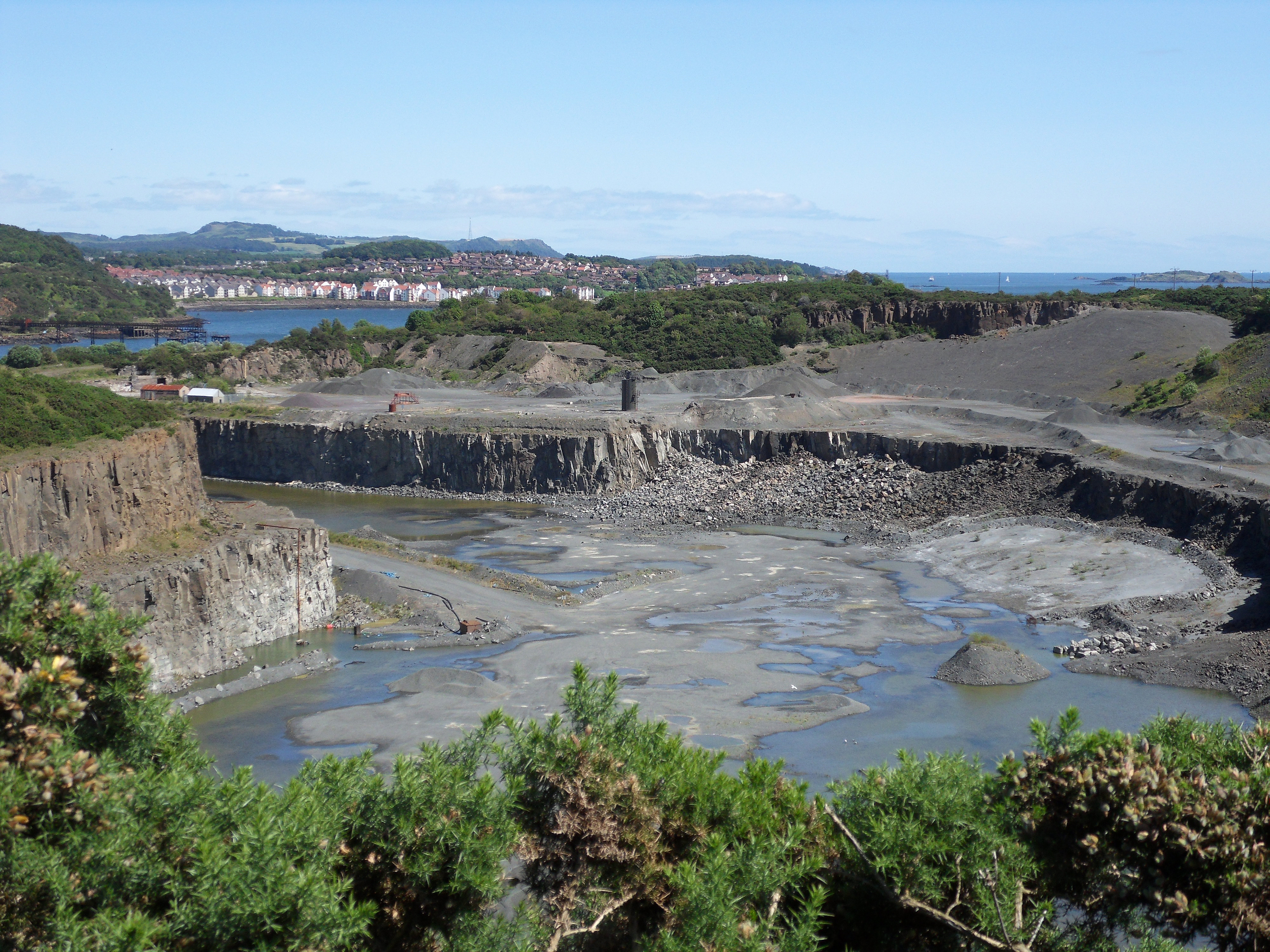 A view of Cruick's Quarry, 2011, looking North East, the town of Dalgety Bay in the background